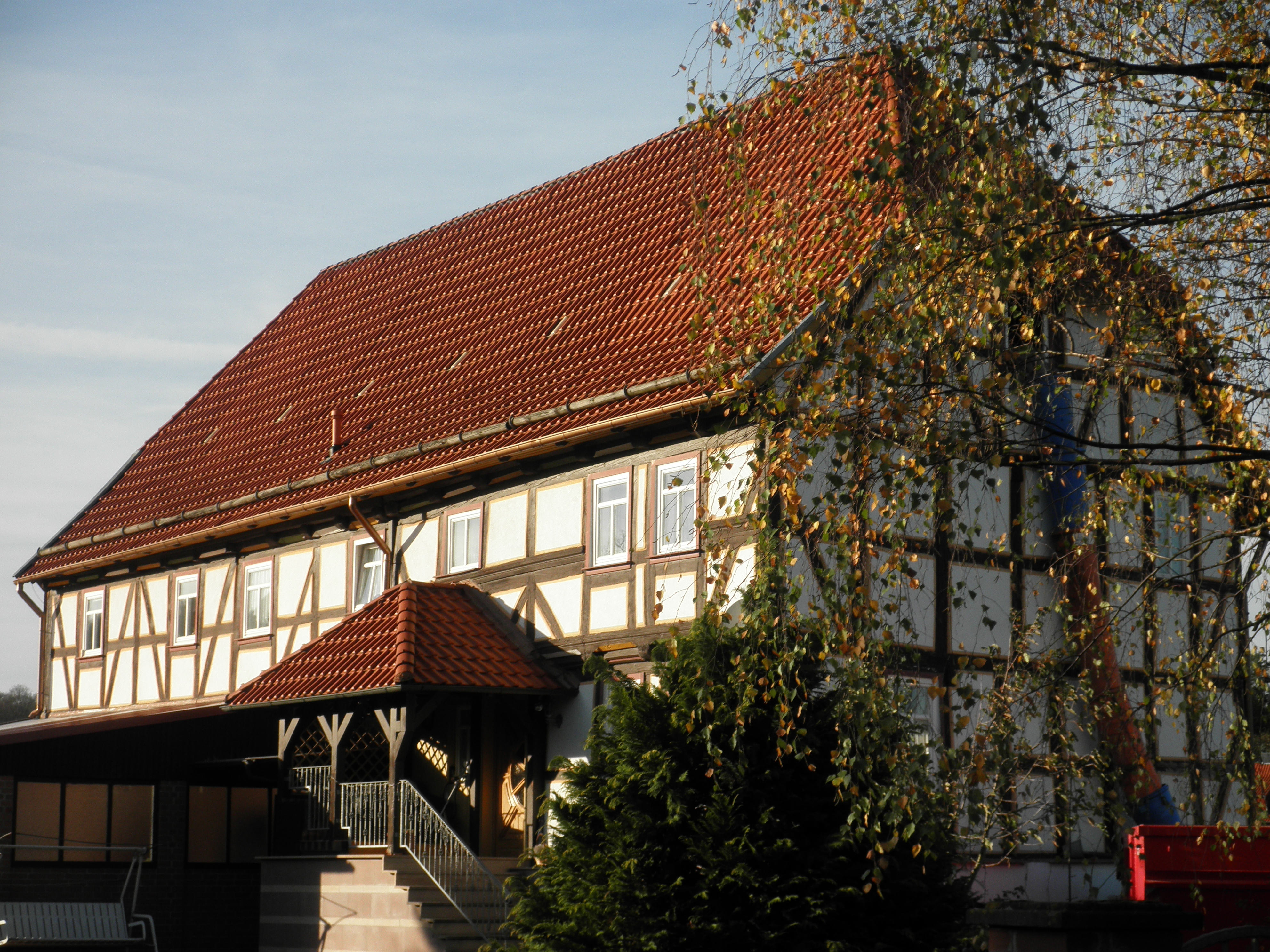 Manor House in Gudersleben in Thuringia